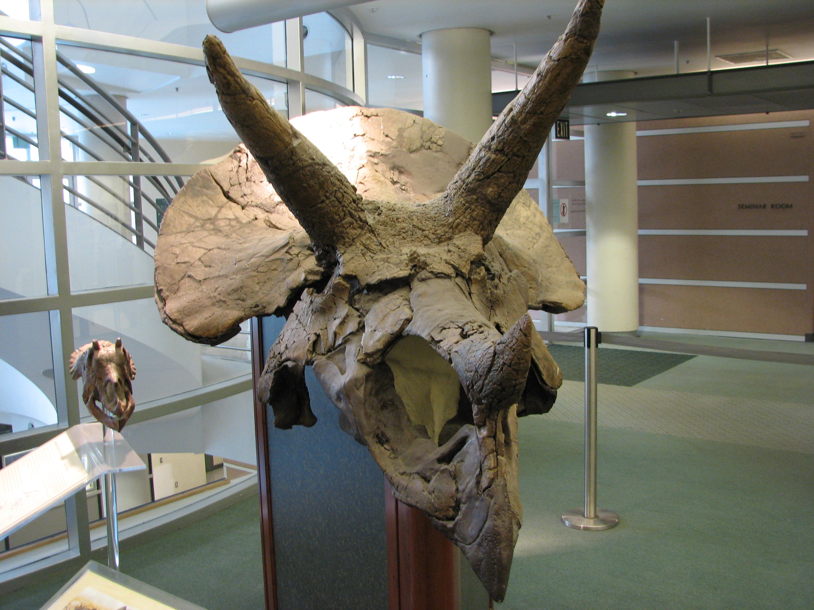 Triceratops skull on display at the University of California, Berkeley in VLSB